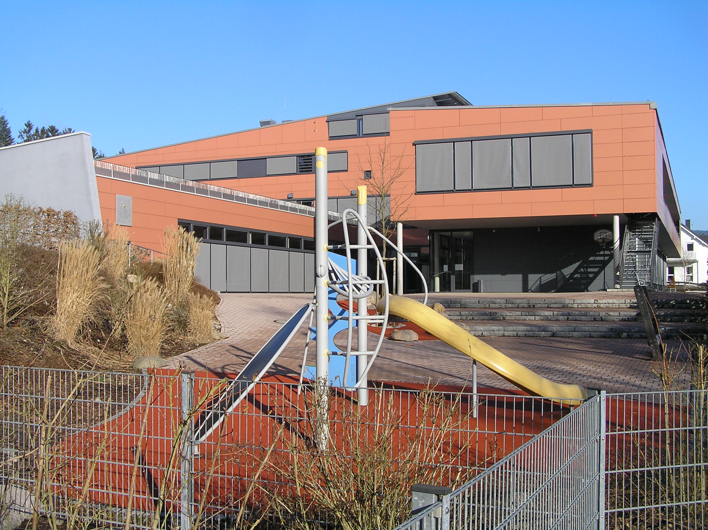 Primary School Schloßborn, Germany